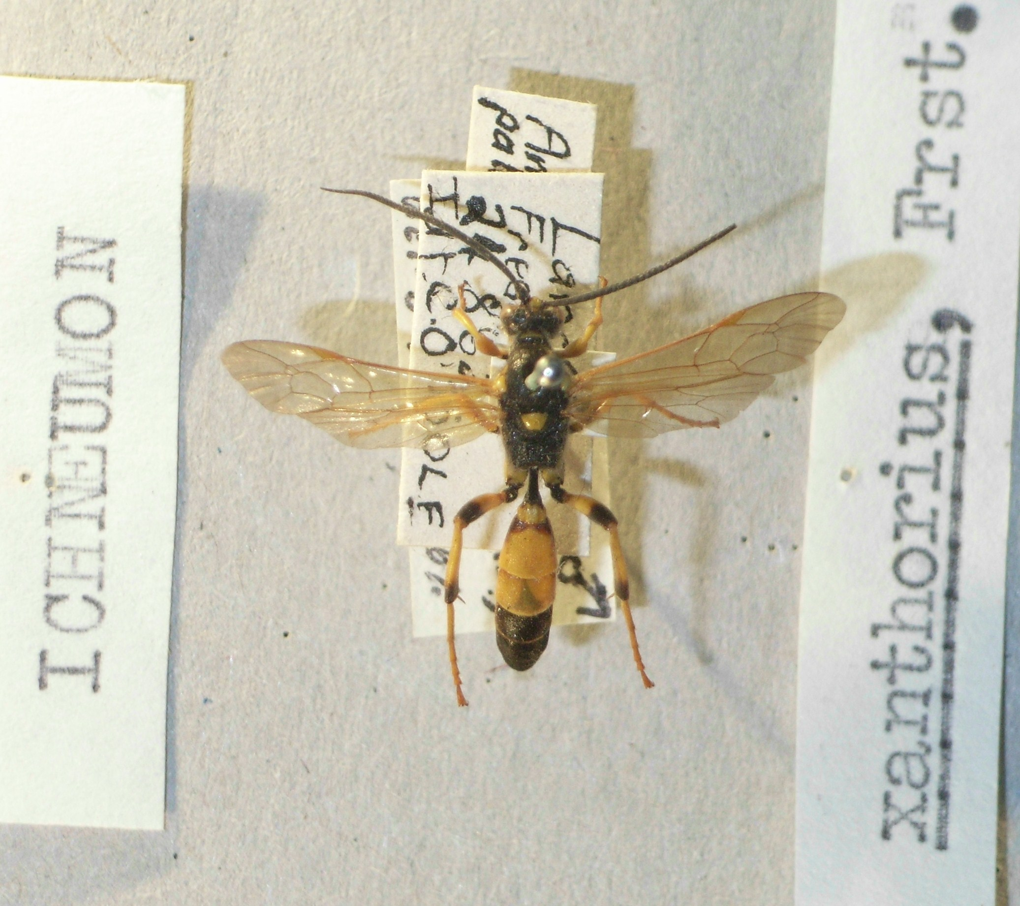 Ichneumon xanthorius